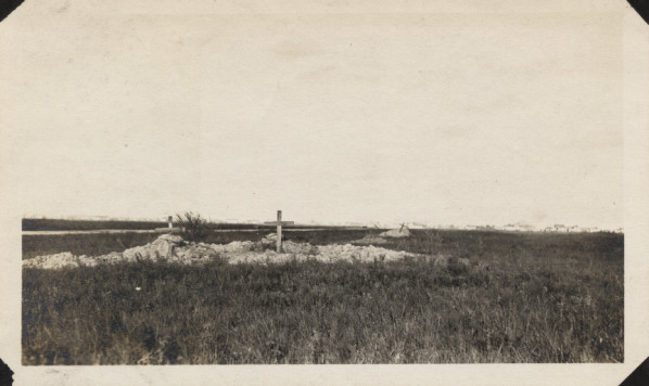 Storm victims graves near Texas City after 1915 Galveston Hurricane